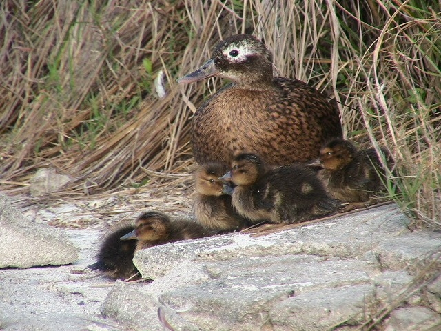 Female Laysan Duck with chicks